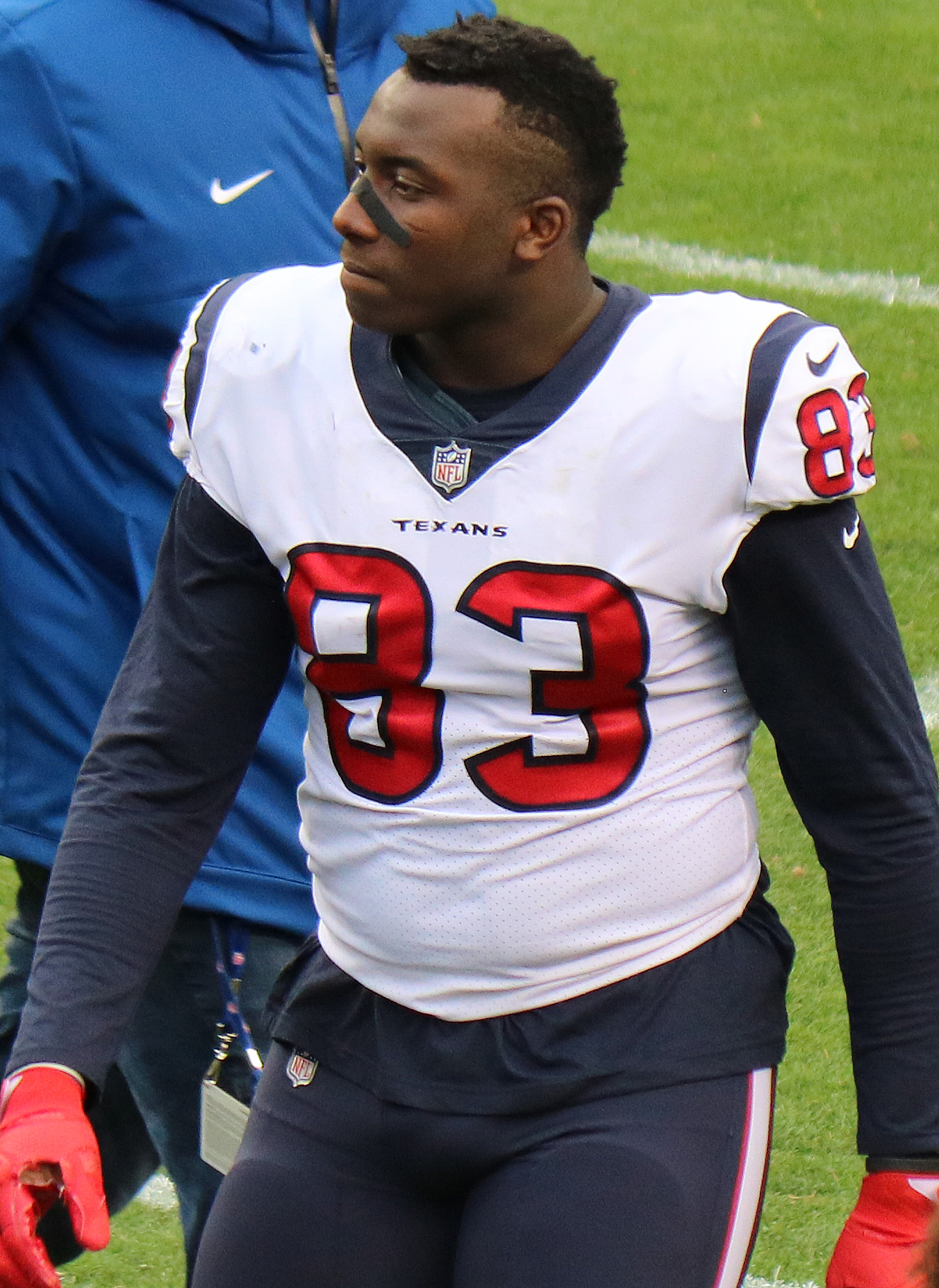 Jordan Thomas, a player on the National Football League.